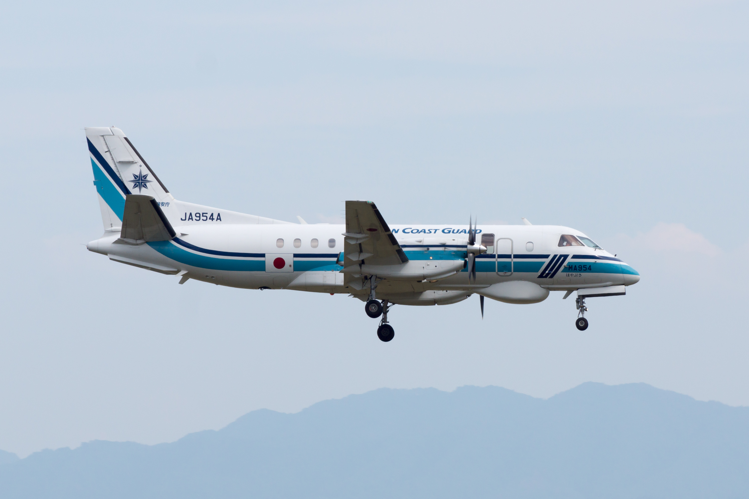 Japan Coast Guard / 海上保安庁 Saab 340B/Plus SAR-200 JA954A MA954 "Hayabusa (Falcon)" Kansai Airport Coast Guard Air Station